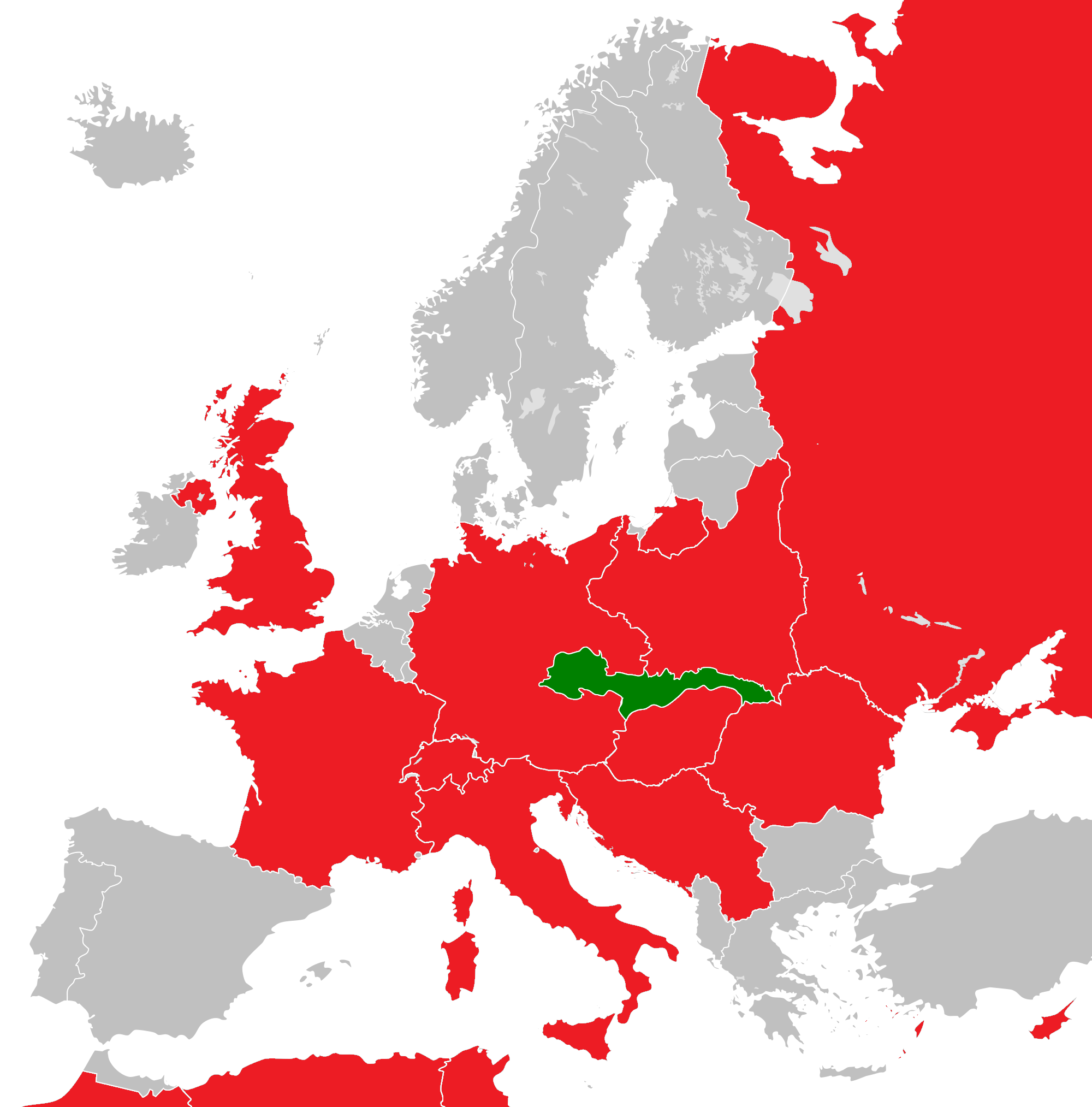 (red) to these countries Czechoslovakia (green) was broken off diplomatic relations, or they were terminated by the other countries